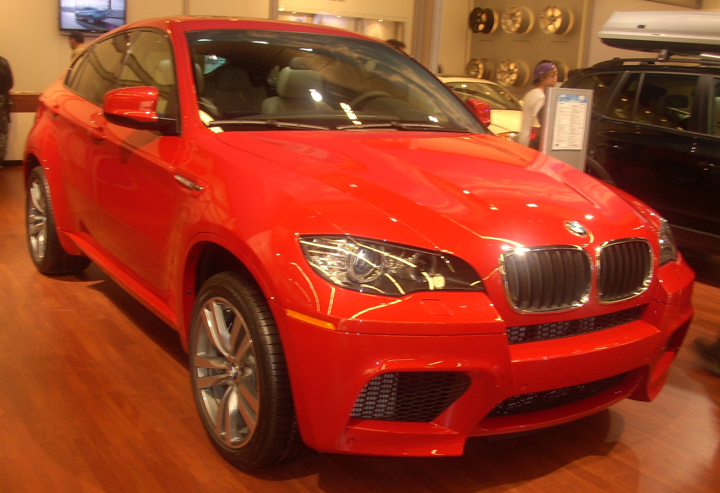 2010 BMW X6 M photographed in Montreal, Quebec, Canada at the 2010 Montreal International Auto Show.